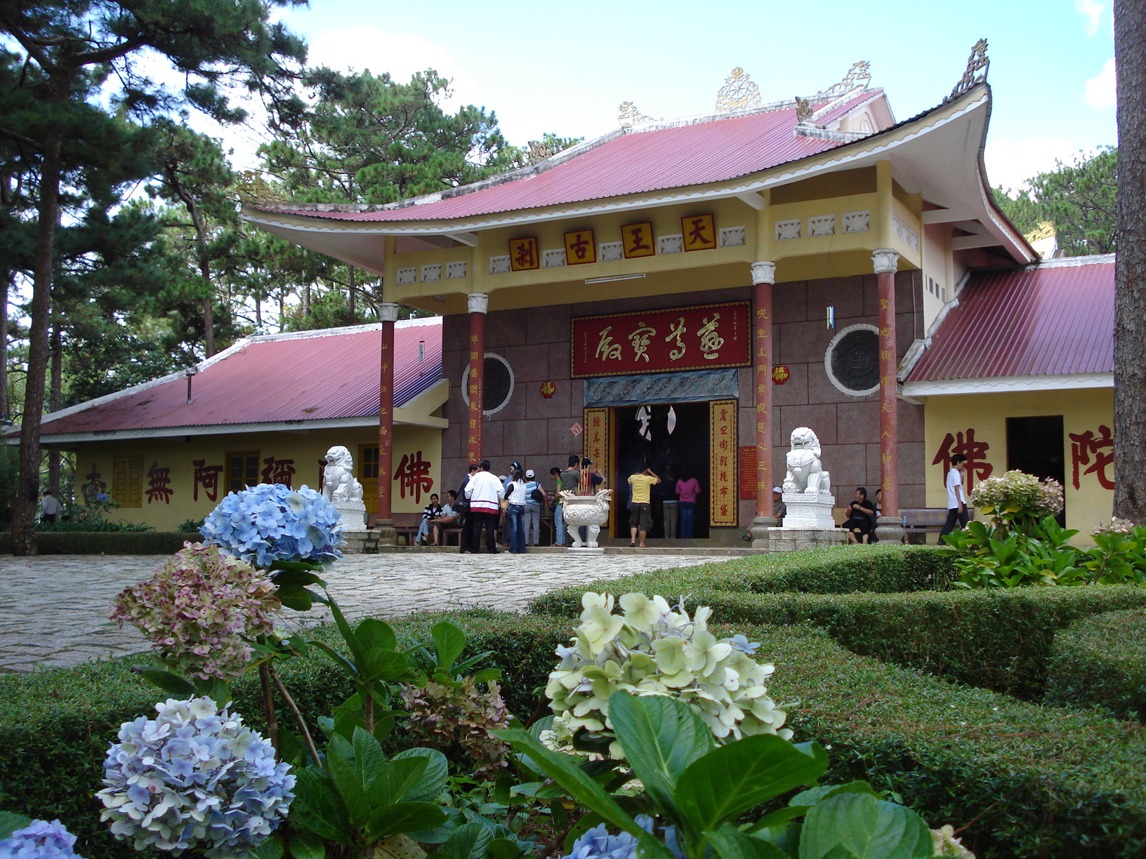 Thien Vuong Co Sat Pagoda